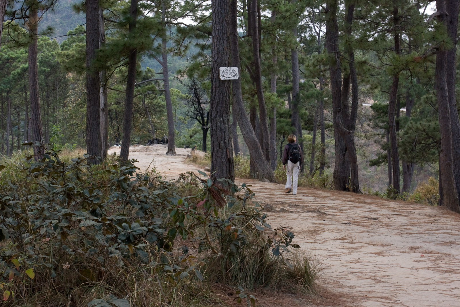 Pascual Abaj - Maya Shrine on a hill near Chichi